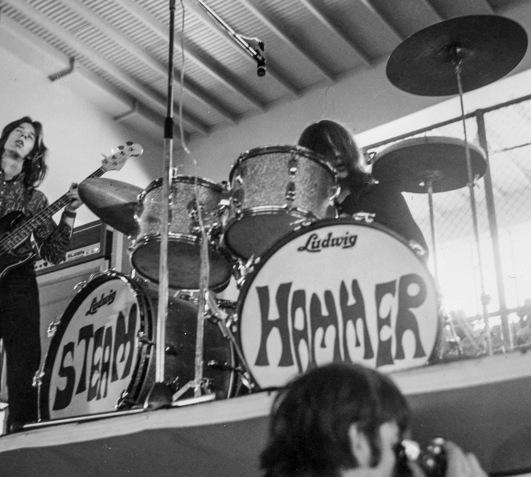 Steamhammer at the Joint Meeting in Dusseldorf in May 1970